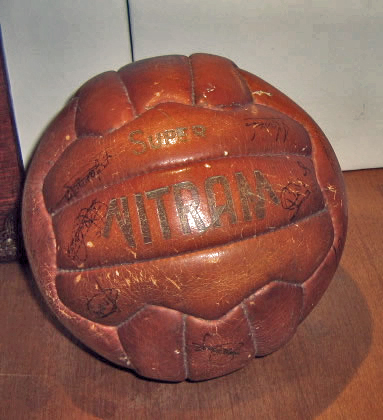 Ball used in the first Fair's Cup final, in 1958, now exhibited at FC Barcelona's museum